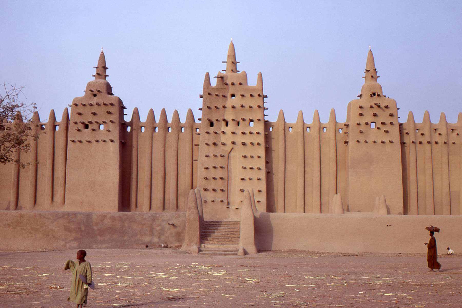 The Great Mosque, Djenne, Mali, in the morning. Capture Date: 27/12/1972 around 7:45.